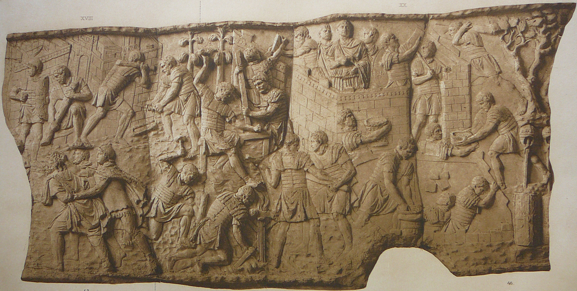 A Dacian prisoner is brought in (scene XVIII); building a bridge (scene XIX); building a fort (scene XX)